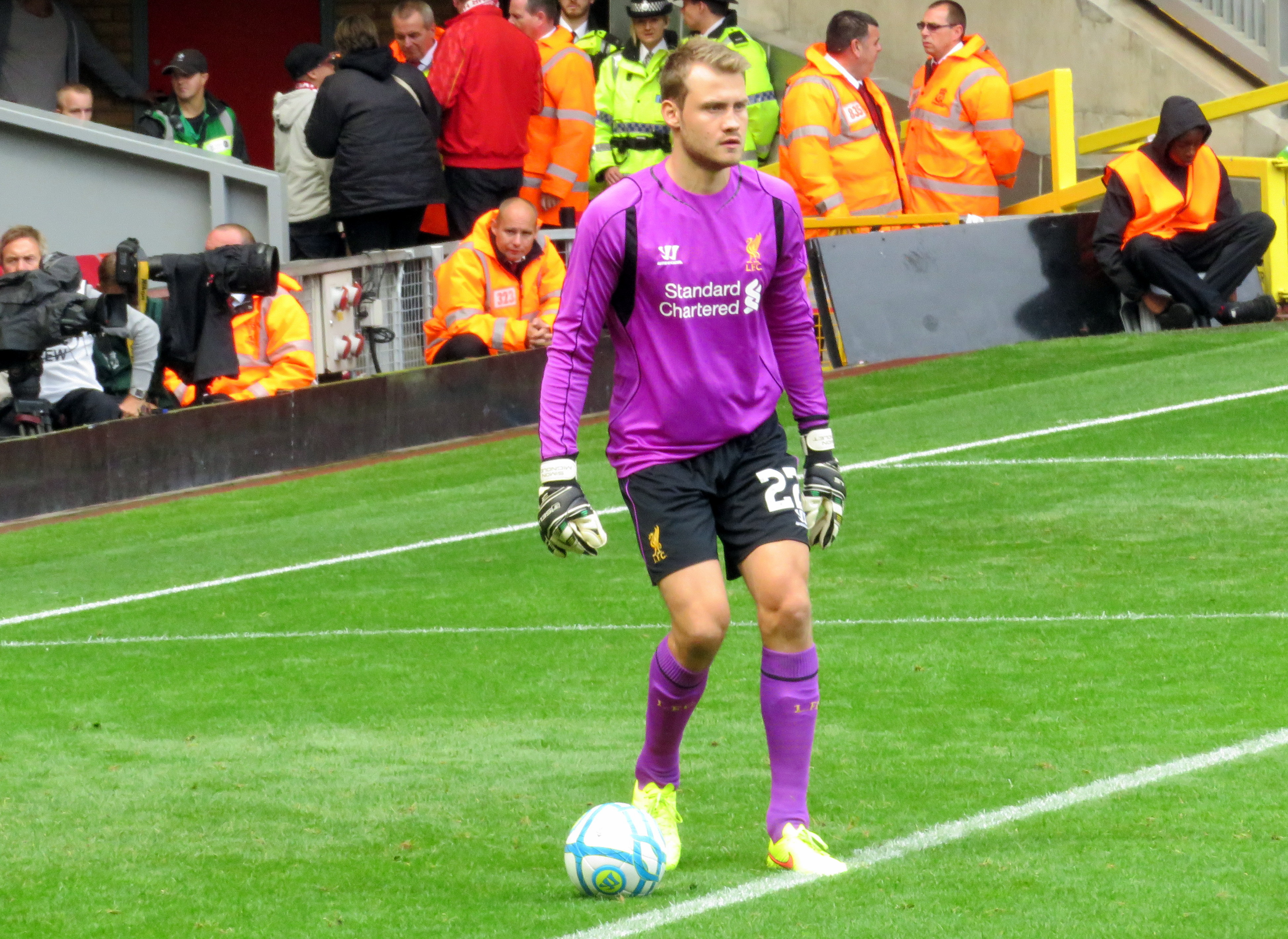 Simon Mignolet playing for Liverpool in a friendly match against Borussia Dortmund in 2014